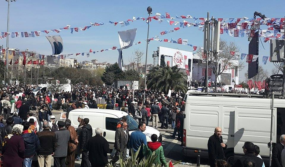 The first electoral rally of the Turkish Republican People's Party for the 2015 general election in Kartal, İstanbul